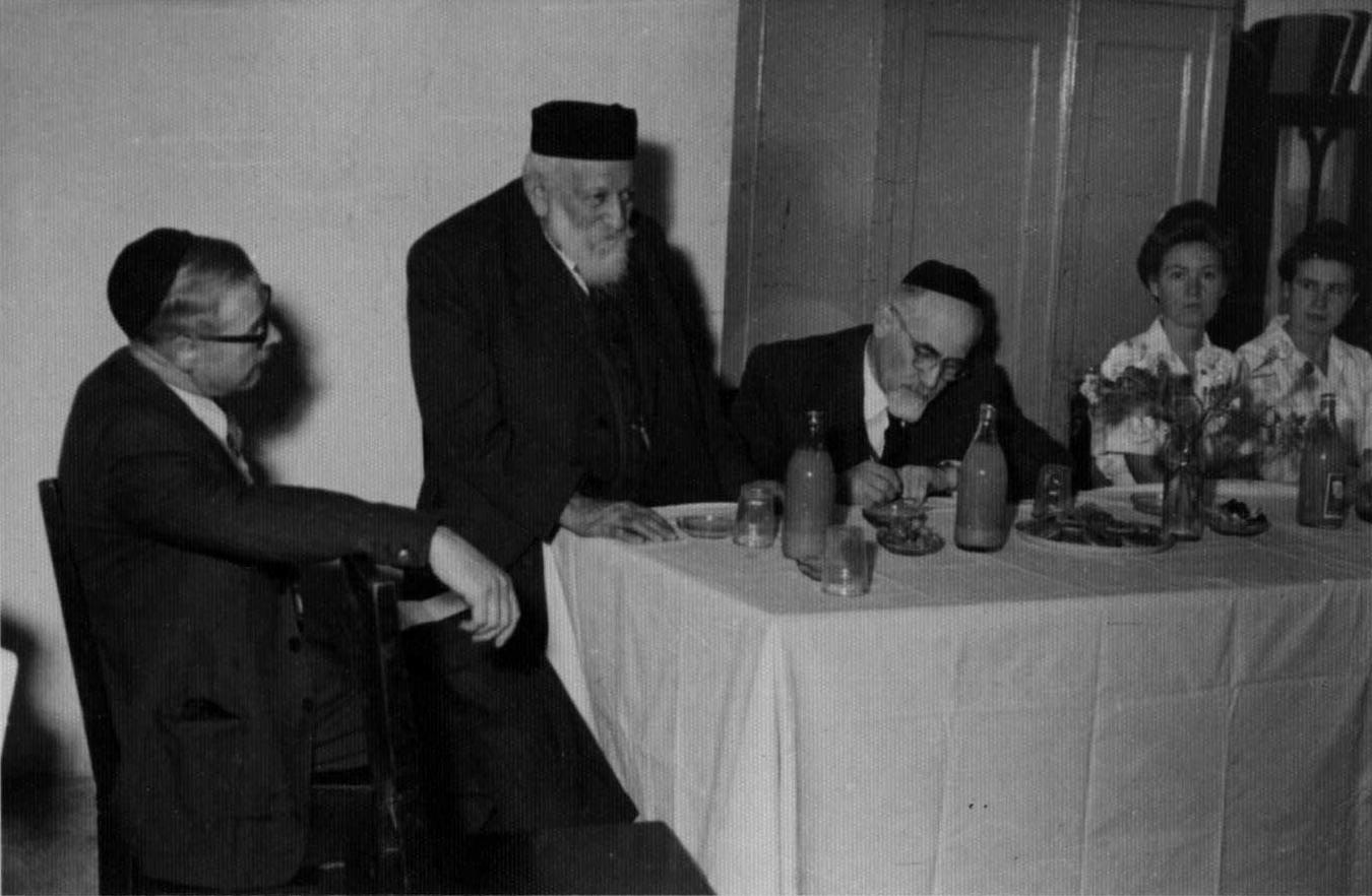 Graduation ceremony of the professional nursing class at Shaare Zedek Hospital. Standing: Dr. Moshe Wallach, hospital founder. Seated to Dr. Wallach's left is Dr. Schlesinger, his successor as hospital director. Photo taken in Jerusalem, circa 1954